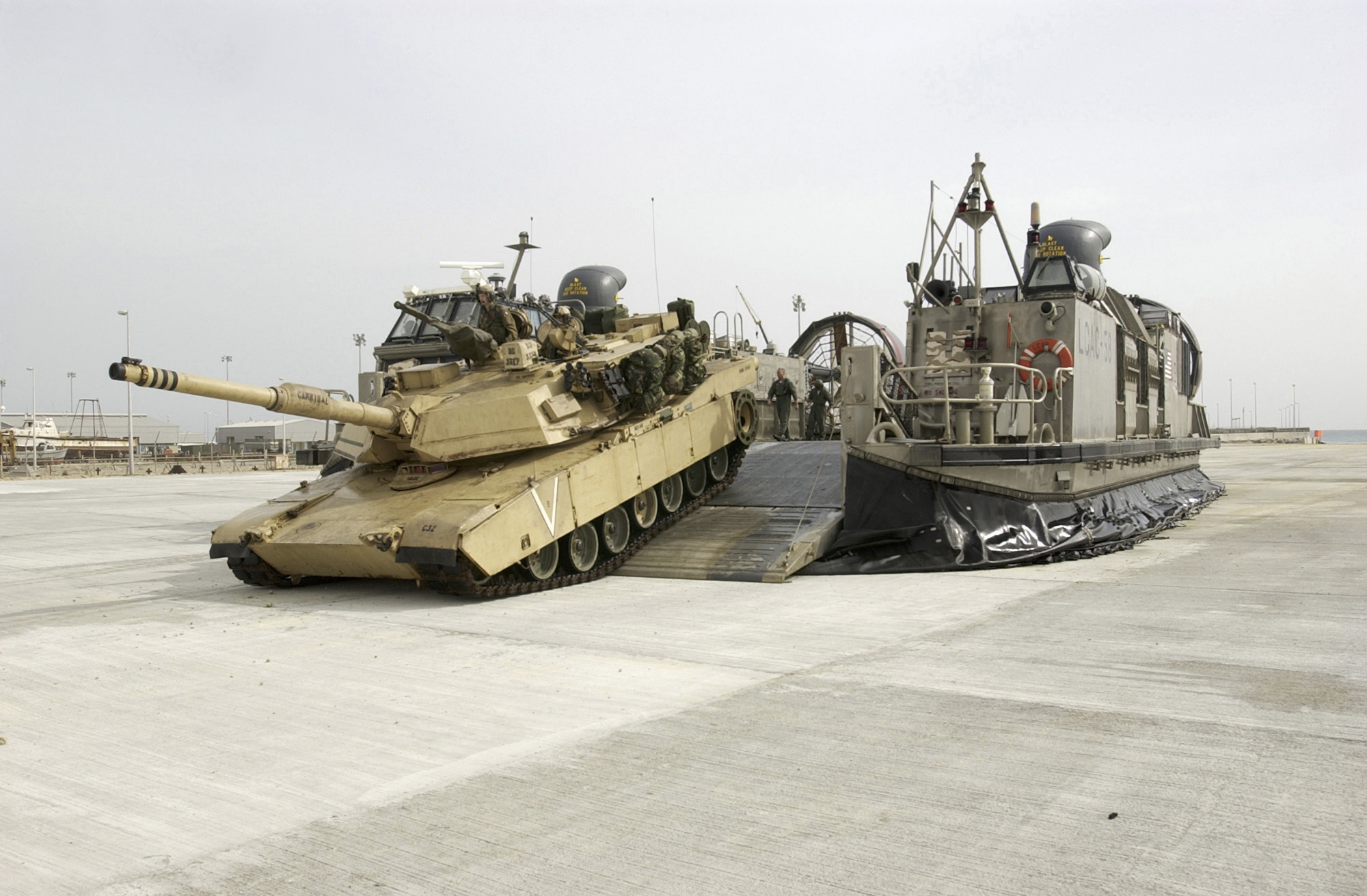 Central Command Area Of Responsibility (Feb. 12, 2003)-- A Landing Craft Air Cushion (LCAC) from the USS Tarawa (LHA 1) Amphibious Ready Group (ARG) offloads an M1-A1 Abrams Tank on a cement parking pad for future operations. The Tarawa ARG uses LCACs and other conventional landing craft as well as helicopters to move U.S. Marine assault forces ashore. Tarawa is currently forward deployed in support of Operation Enduring Freedom. U.S. Navy photo by Photographer's Mate 1st Class Brien Aho. (RELEASED)